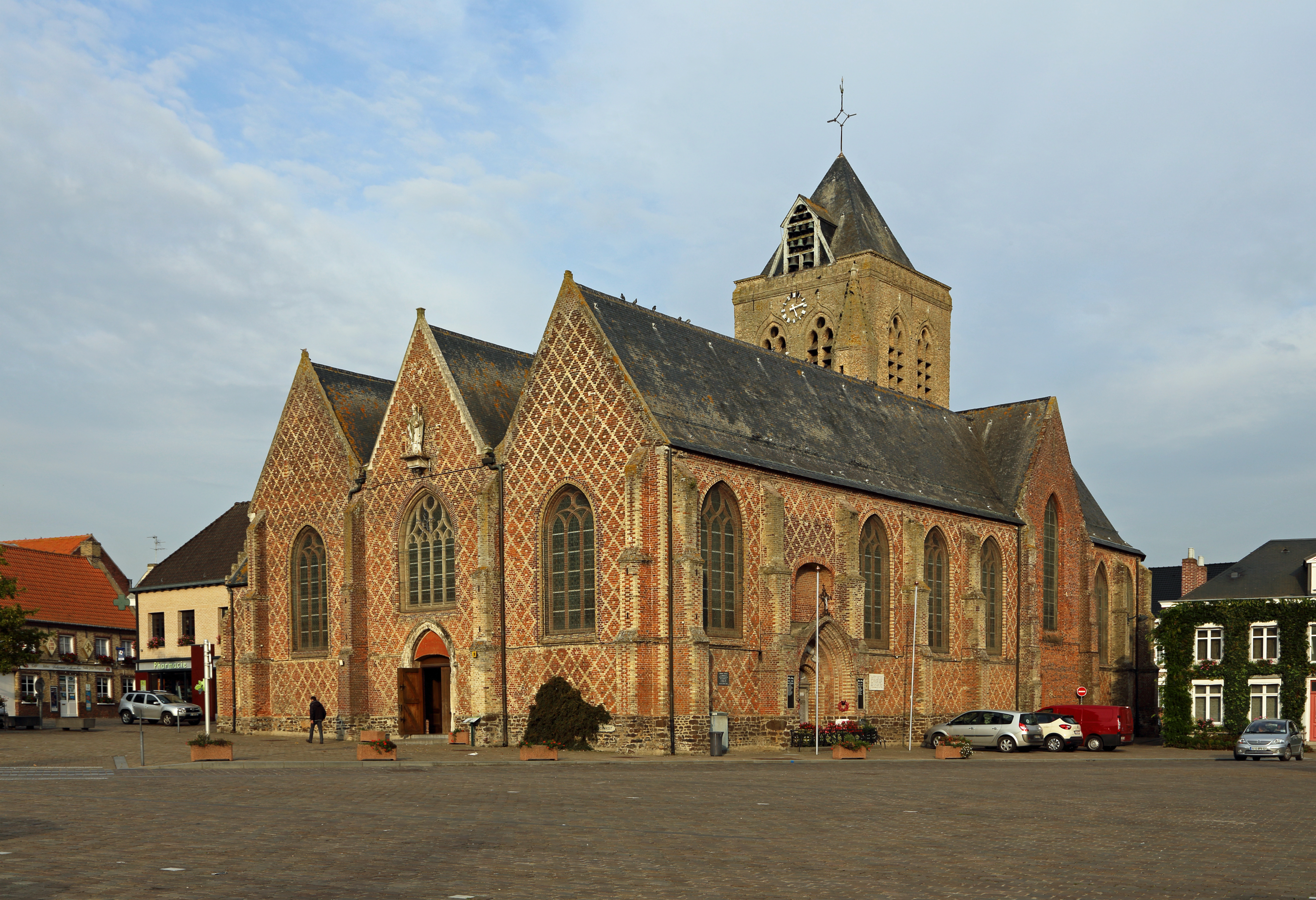 Esquelbecq (Nord department, France): St Folquin's church